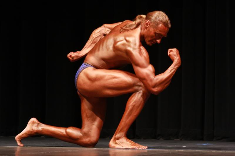 Robert Cheeke at a natural bodybuilding competition at Clackamas high school in Oregon.